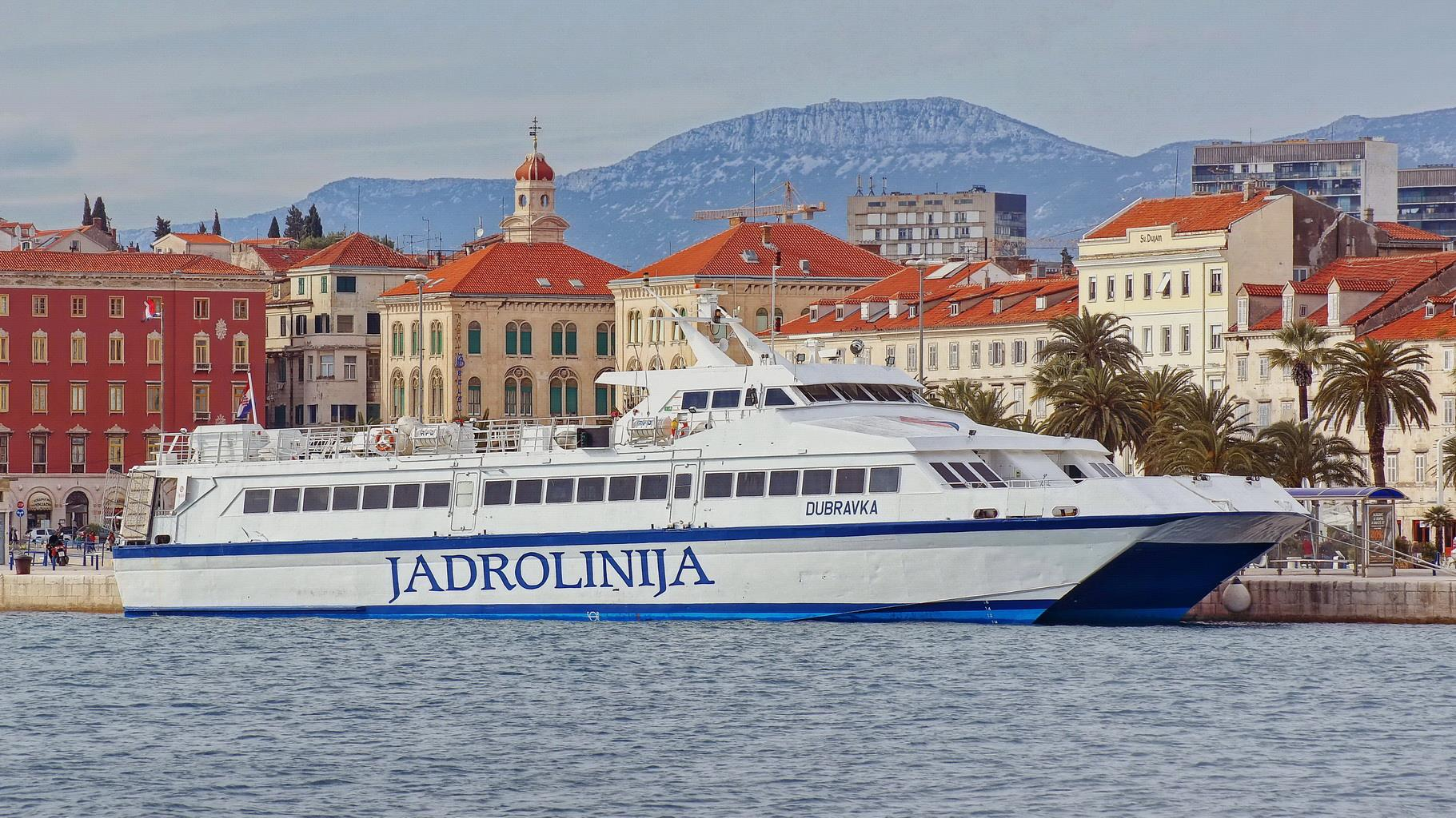 Dubravka docked in the port of Split. Time-space: Mar 17, 2013; CET 15:12:34; N 43° 30' 23", E 16° 26' 21".